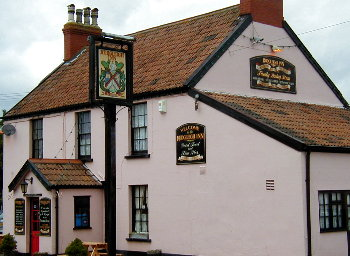 rudgeligh Inn